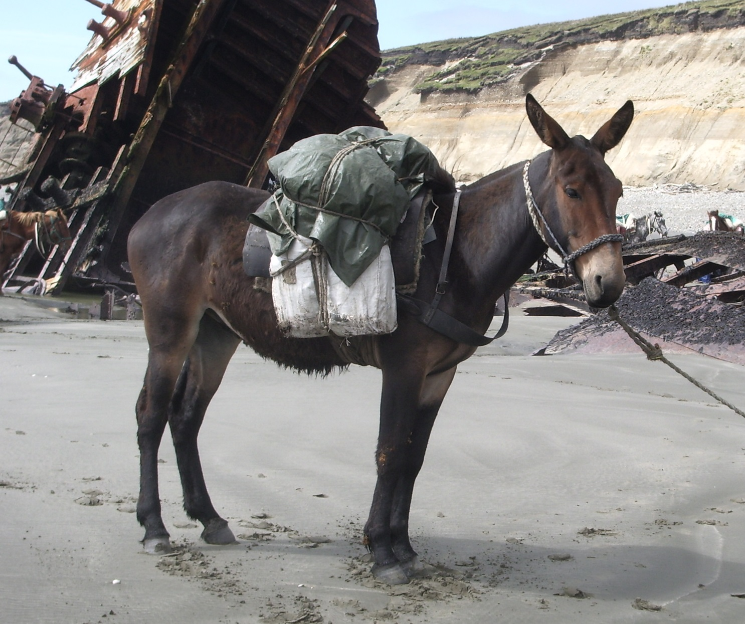 Juancito (officially called Remonta Inesperado), which the author calls the best mule of Argentina, on an excursion on the Mitre Peninsula, in Tierra del Fuego, Argentina. In the background is the remains of the SV Duchess of Albany, shipwrecked in 1893. Photograph taken in February 2006.